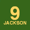 I, the Silent Wind of Doom made this picture on MSPaint to serve as a retired number on the Oakland Athletics page